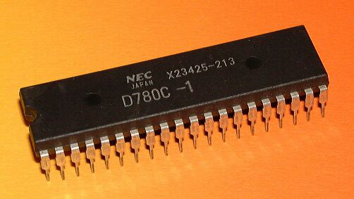 NEC D780C 1